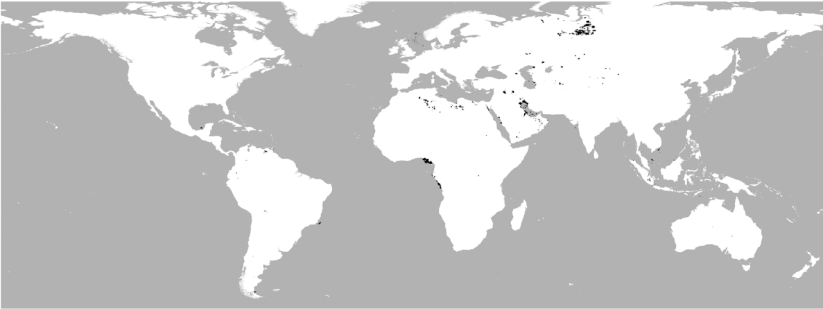 World-gas-flaring